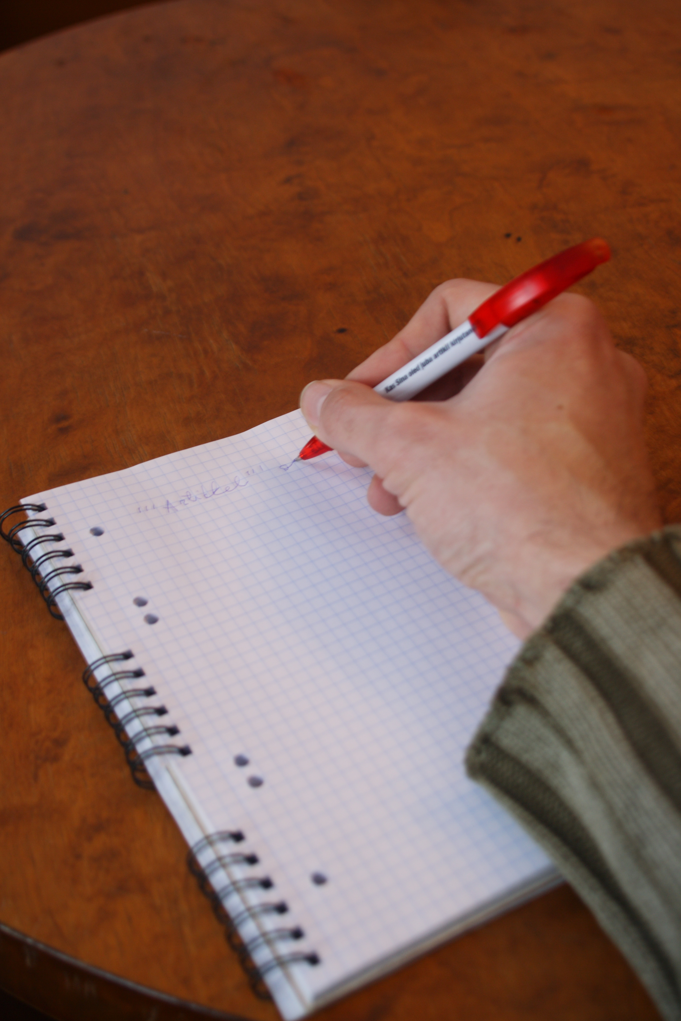 Writing in wiki markup